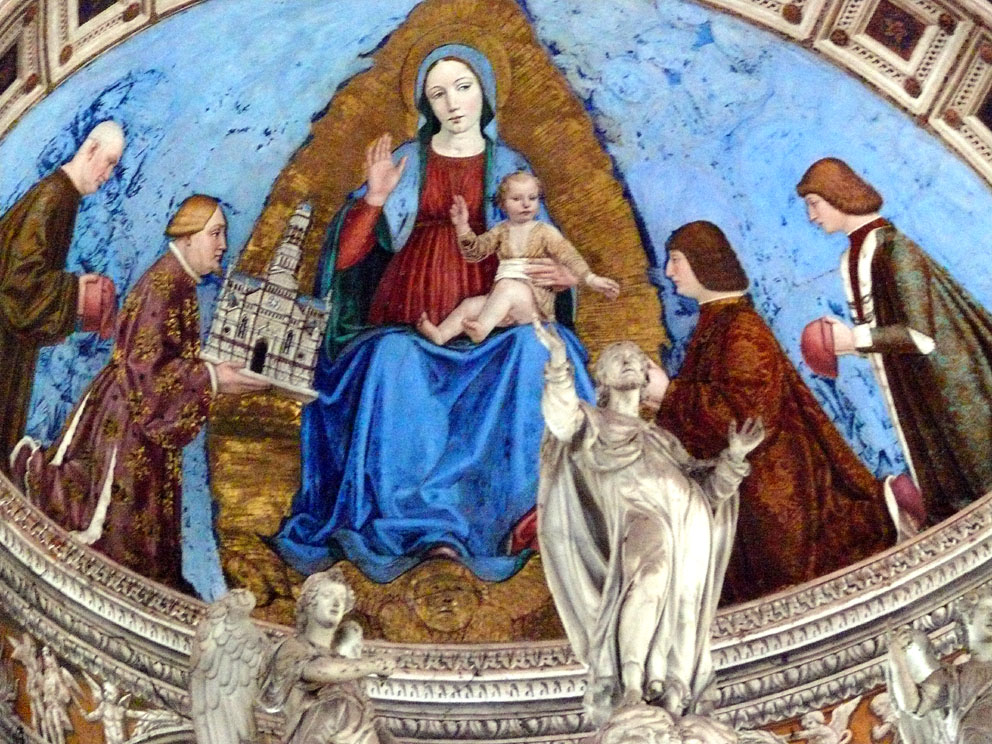 Ambrogio Borgognone called il Bergognone, Gian Galeazzo Visconti (1351-1402), with his three sons,presents a model of the Certosa di Pavia to the Virgin (Certosa di Pavia)